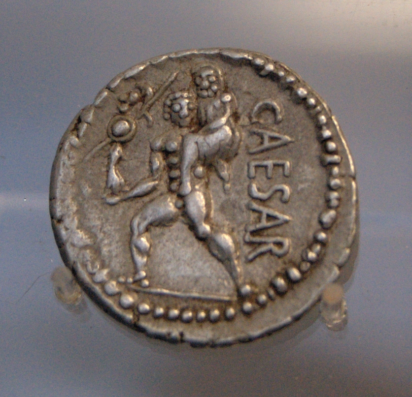 Aeneas carrying his father Anchises and the Palladium. Roman denarius with inscription “CAESAR”, 47–46 BC. Staatliche Münzsammlung (work on display in the Staatliche Antikensammlungen, room 4, as of Februar 2007).